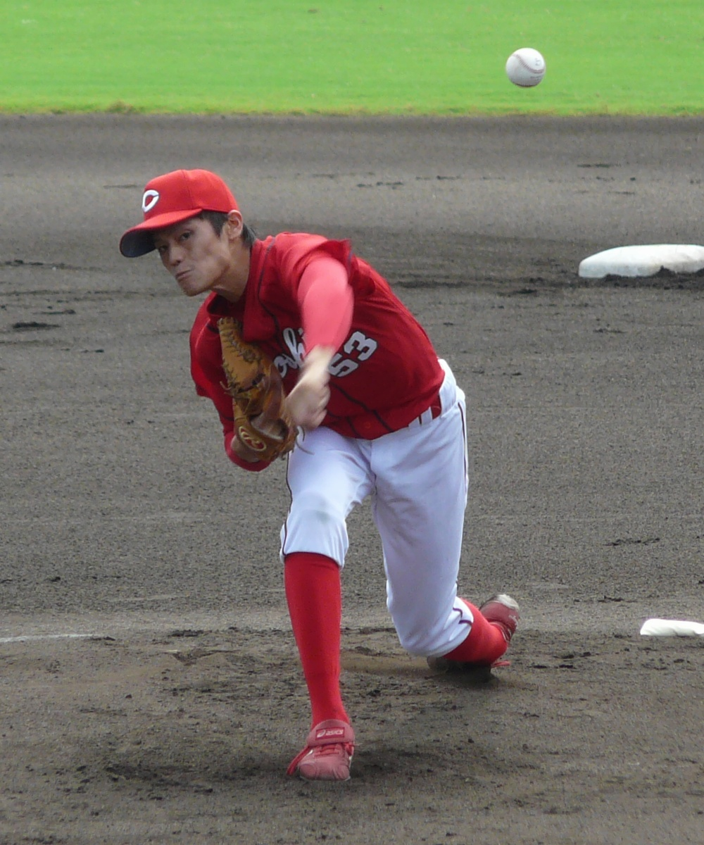 HC-Takaya-Toda20120920